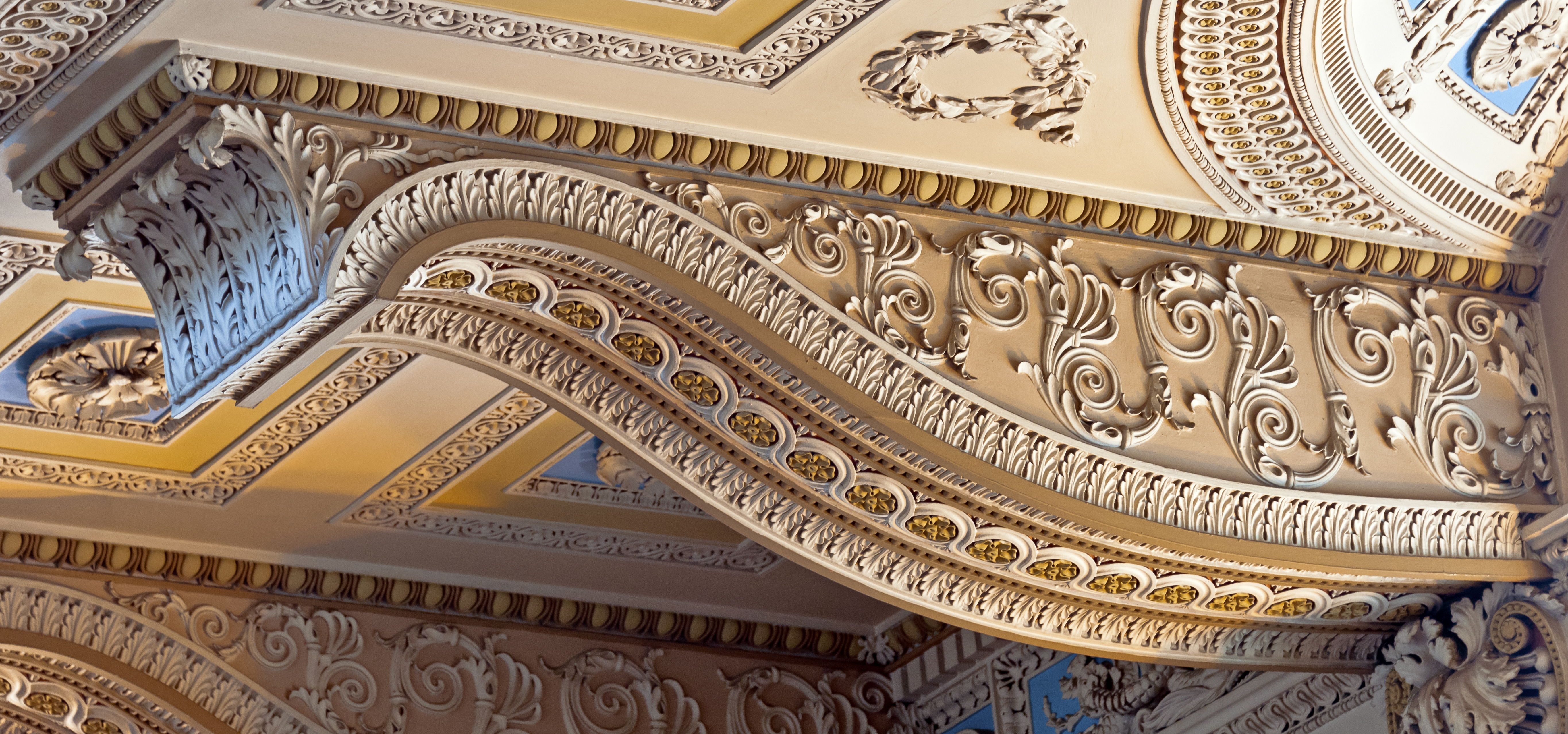 Bracket on ceiling at chapel, Greenwich Hospital, London